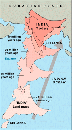 Himalaya Formation US Government website, and in the public domain.